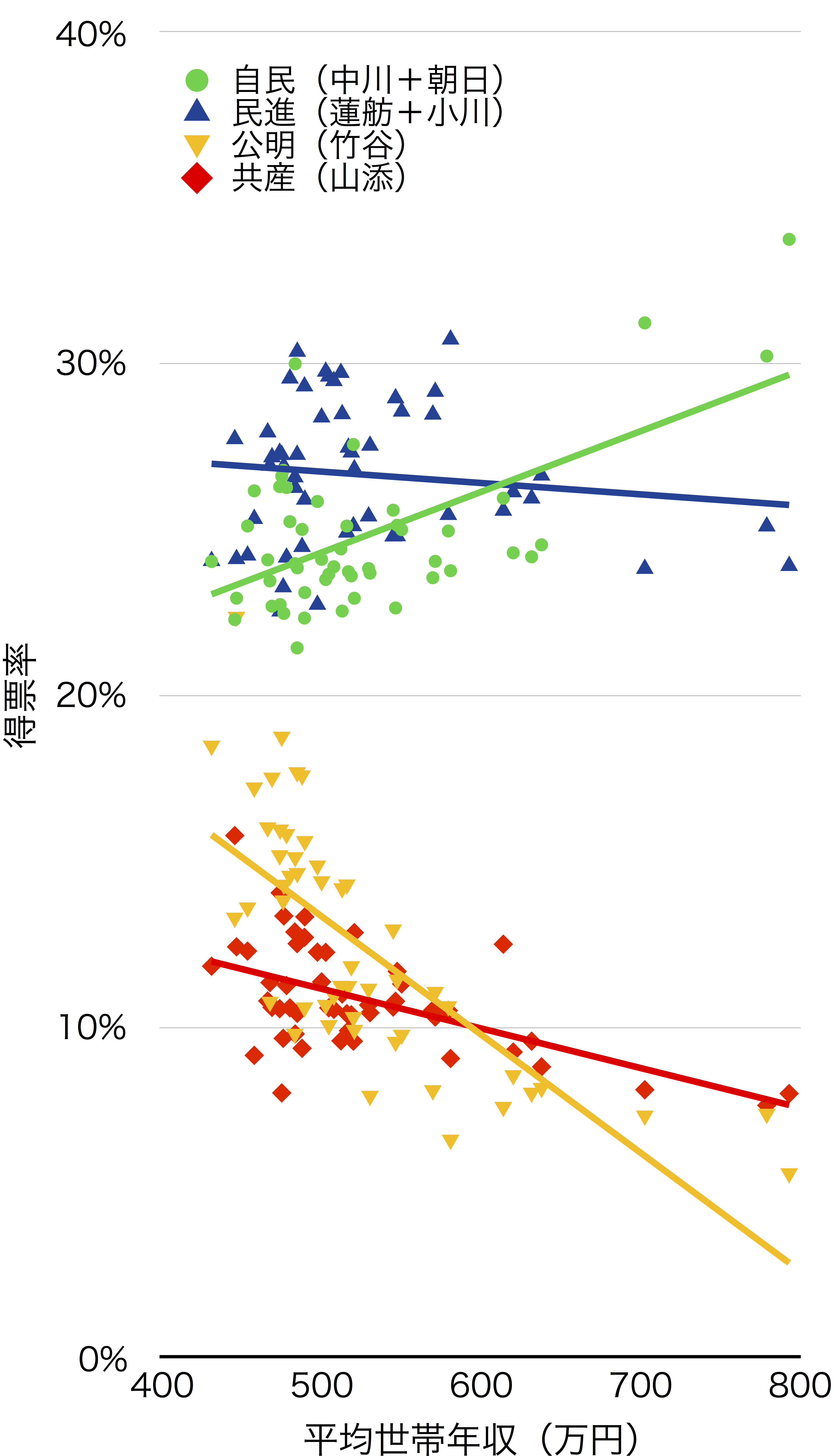 A scatter diagram showing the correlation between the result of Japanese House of Councillors election (2016) and average household income in each municipalities of Tokyo at-large district.